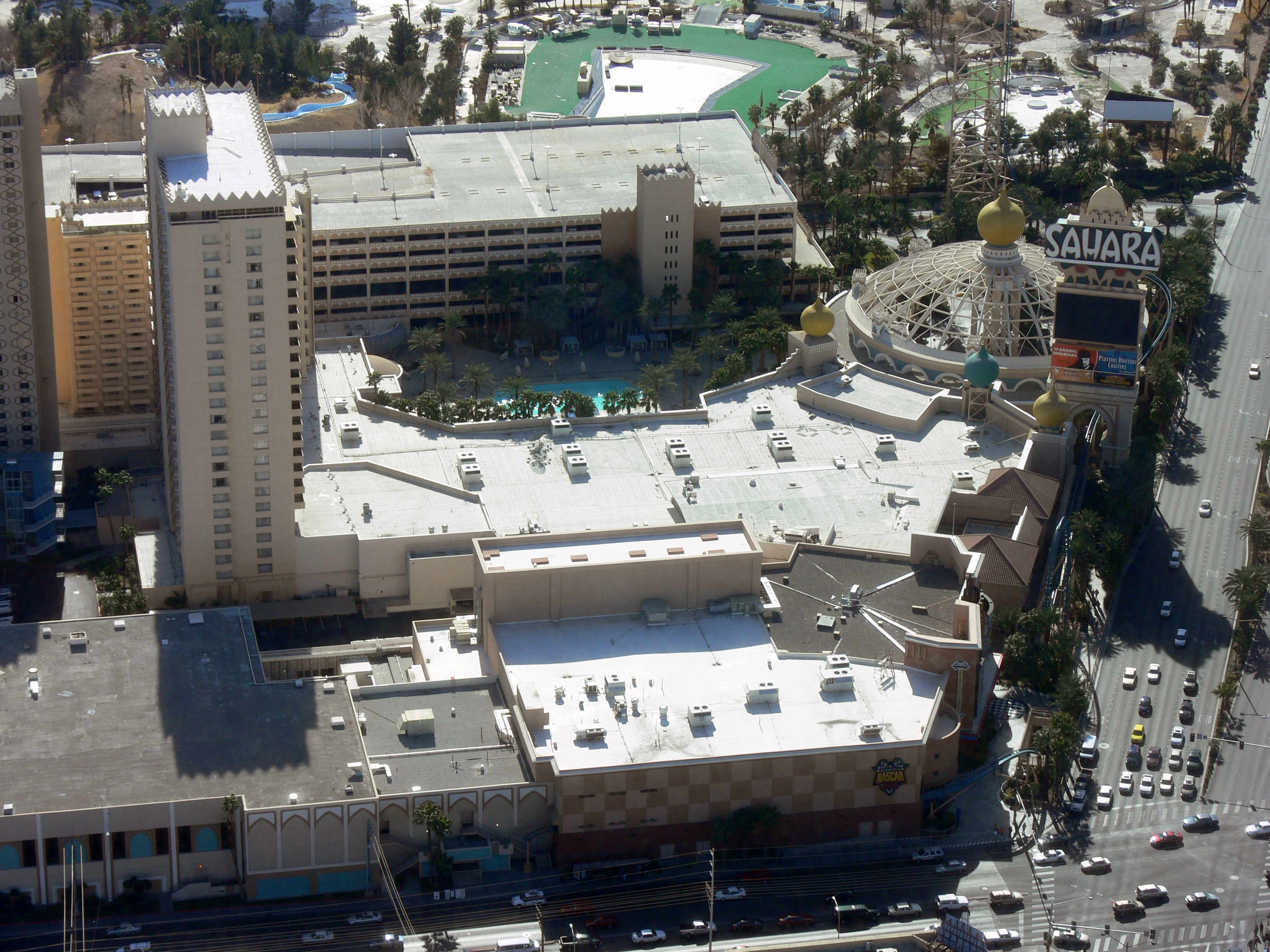 Aerial view of the Sahara hotel-casino on the Las Vegas Strip.